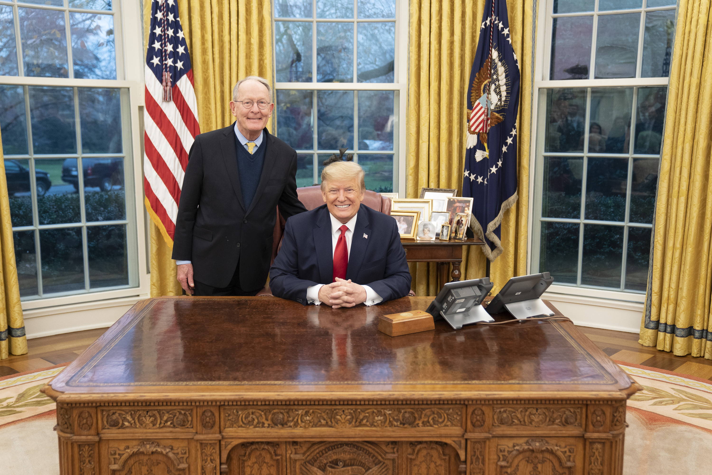 With President Trump’s signature, the FUTURE Act is now law–giving Historically Black Colleges and Universities (HBCUs) and other Minority Serving Institutions and the 20 million students, including 400,000 Tennessee families, who fill out the FAFSA each year a very good Christmas present.